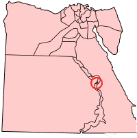 Map of Egypt showing Al Uqsur (Luxor) governorate. Made by User:Golbez based on PD maps.